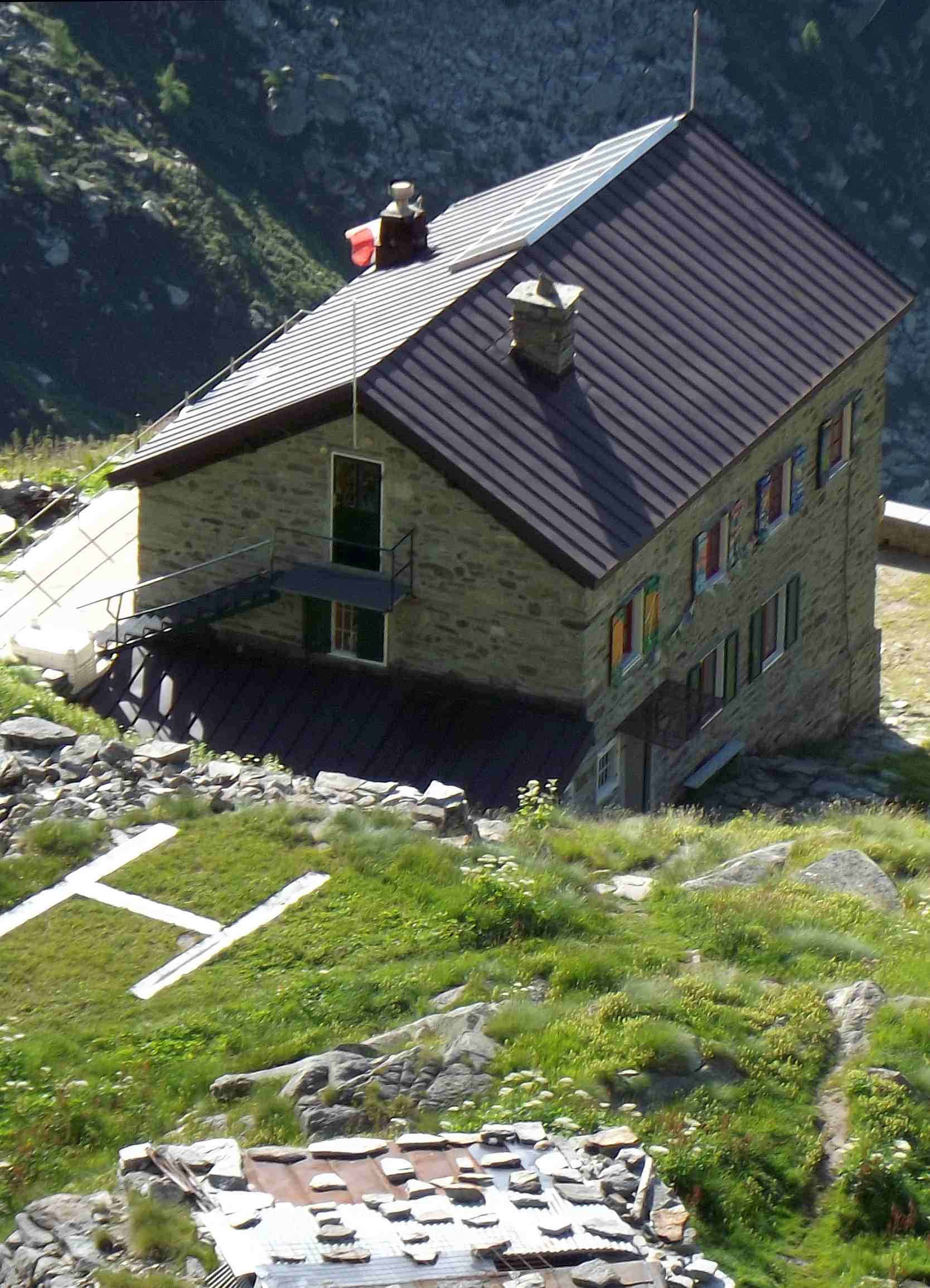 Rifugio Alfredo Rivetti (BI, Italy)